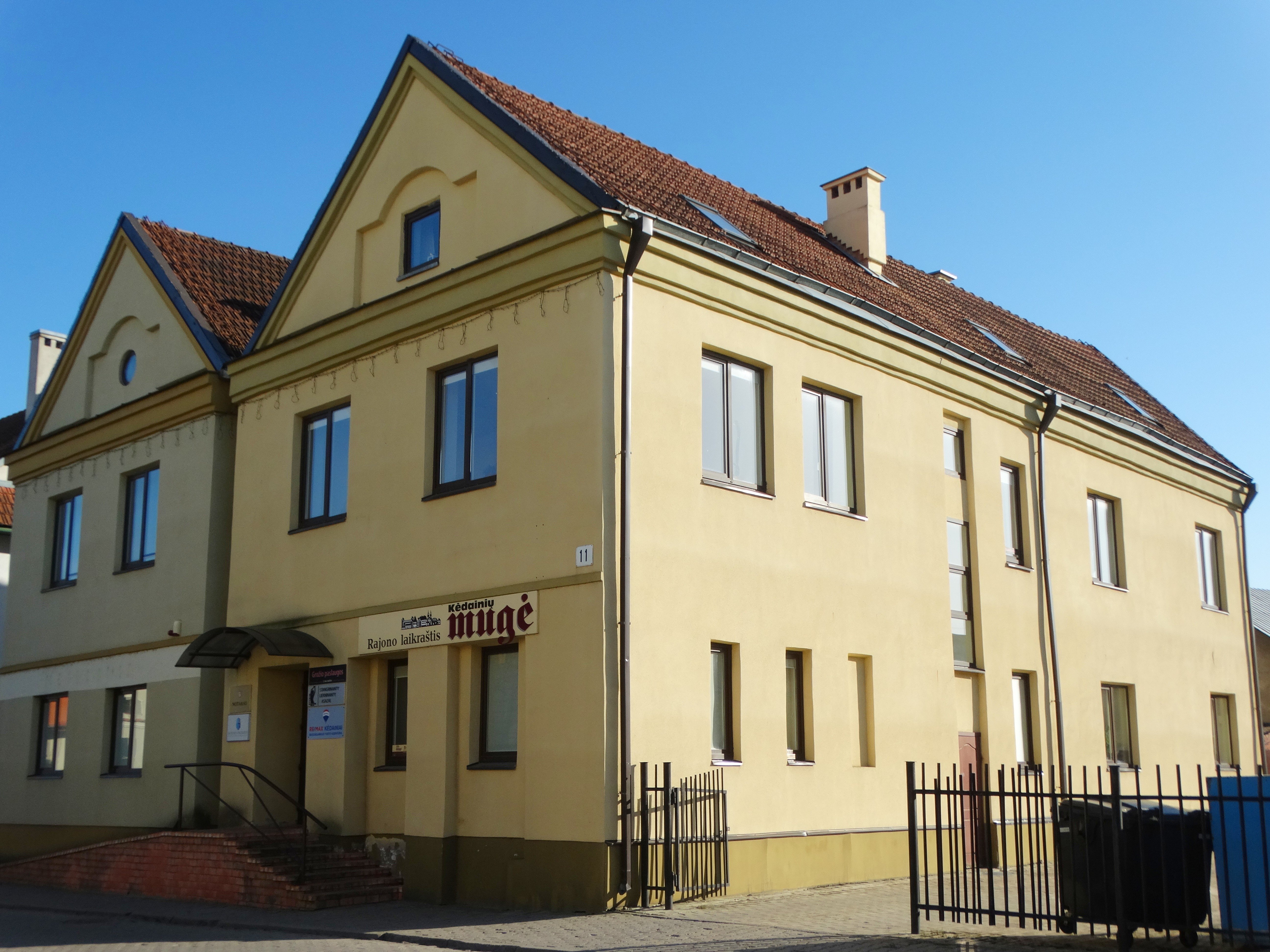 Kėdainių mugė, newspaper editorial, Kėdainiai, Lithuania